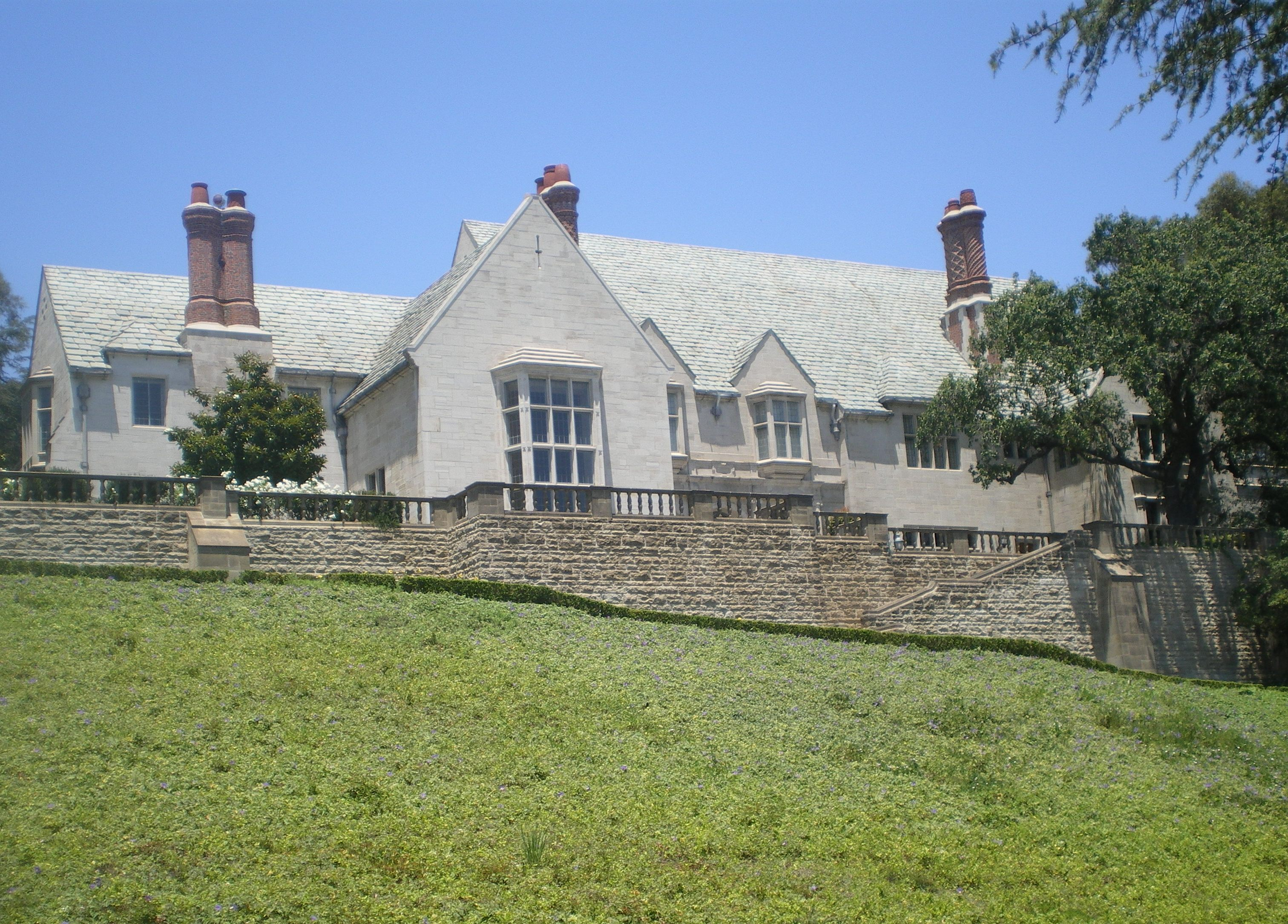 Greystone Mansion — 1928 Doheny mansion in Beverly Hills, California. Present day city park.